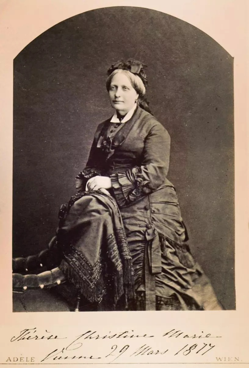 Empress Teresa Cristina in Vienna, Austria, 29 March 1877.